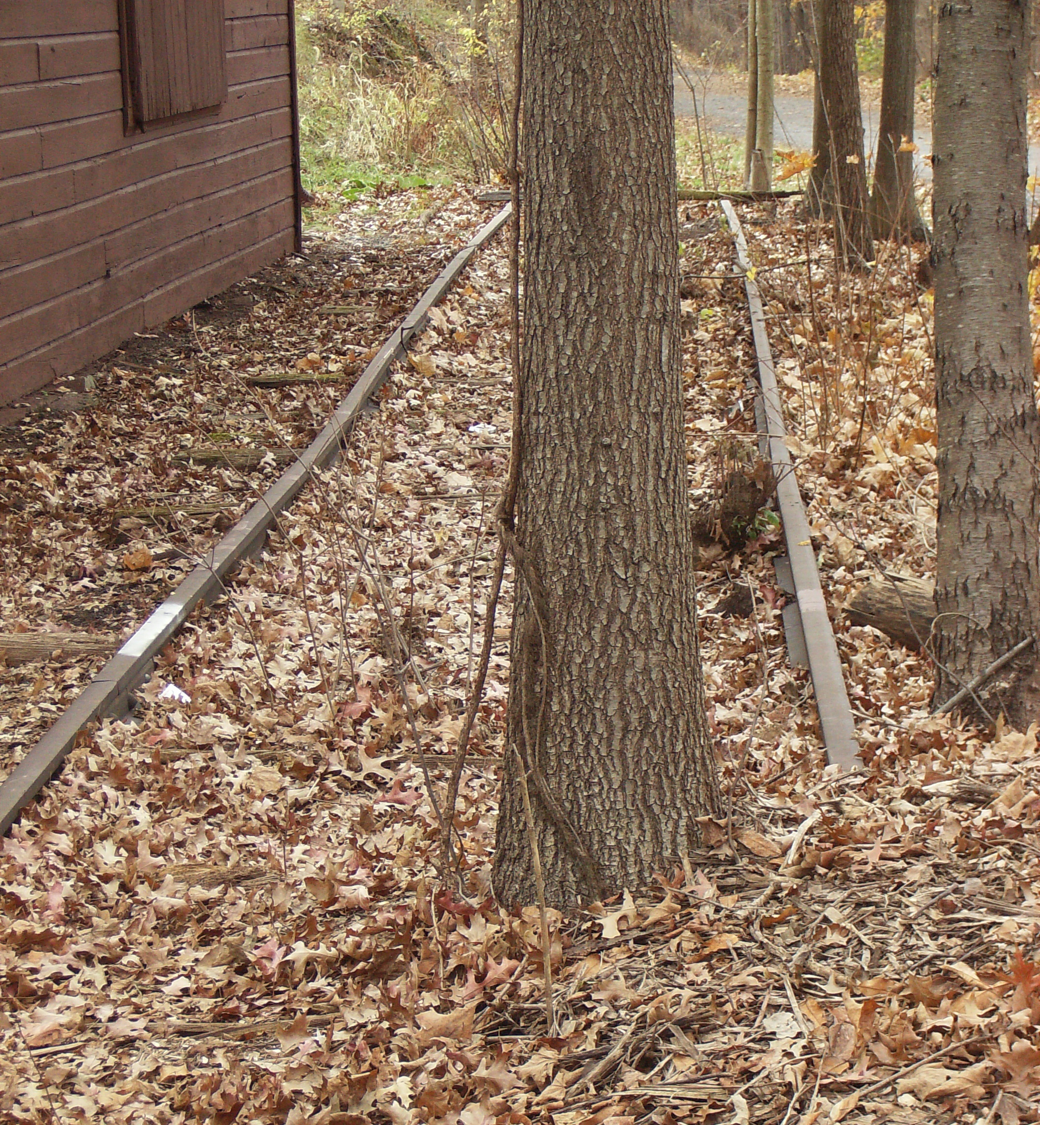 A tree growing between the lines of a spur of the Wallkill Valley Railroad located in New Paltz, New York, adjacent to the Wallkill Valley Rail Trail.